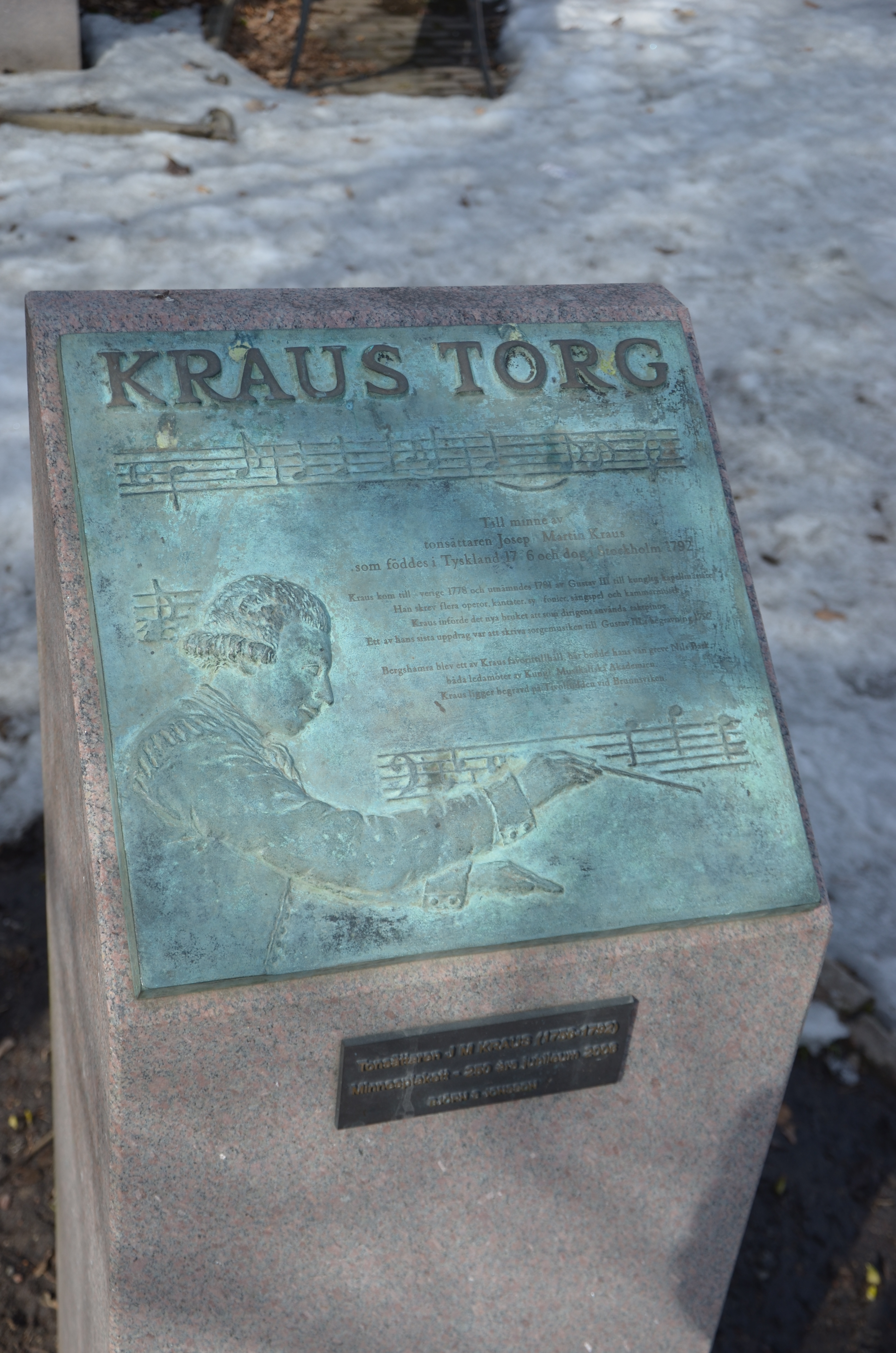 Minnesmärke över Joseph Martin Kraus av Björn S. Jonsson, Kraus torg, Bergshamra, Solna